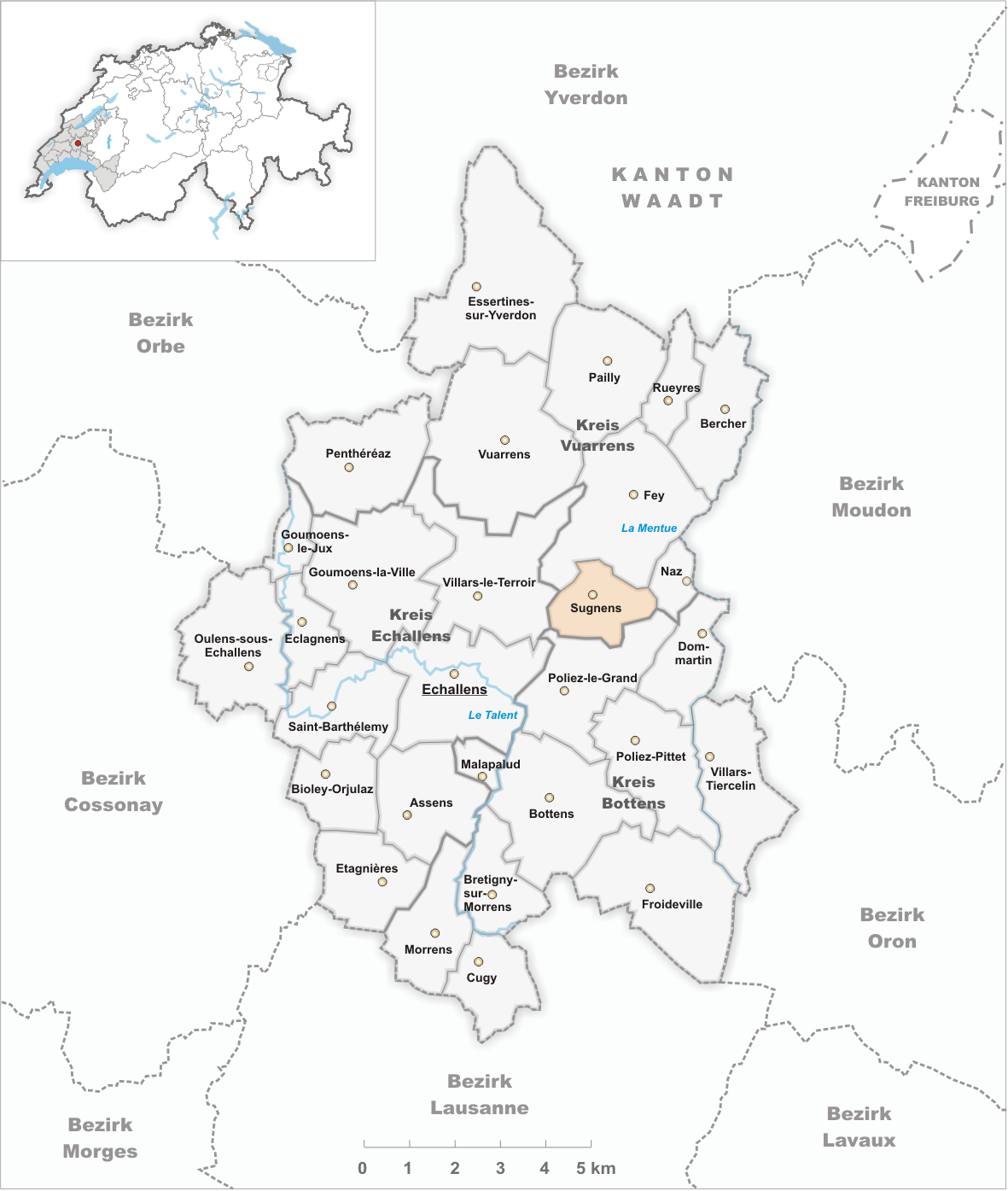 Municipality Sugnens